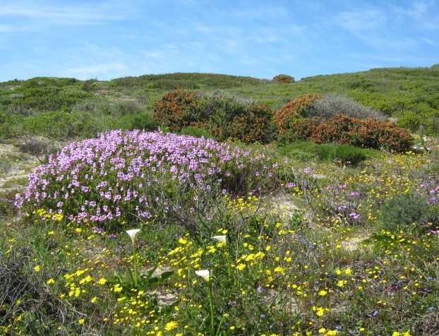 Sand dunes covered in Cape Flats Dune Strandveld. Cape Town.